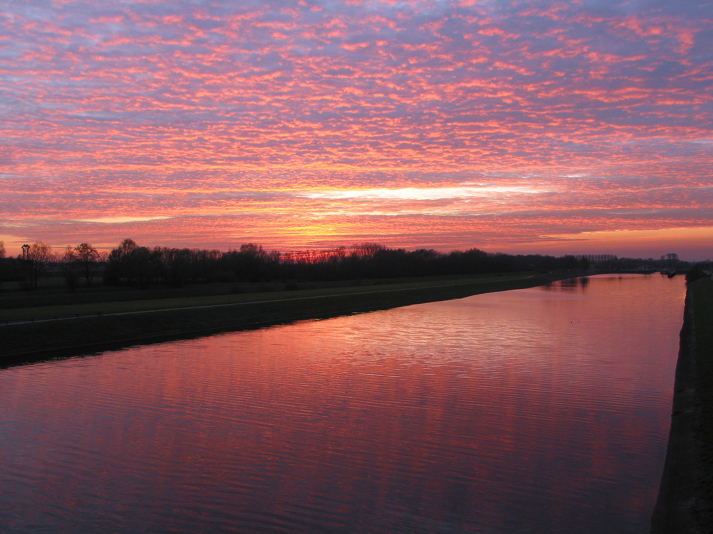 Hensies (Belgium), sky in fire on the Pommeroeul-Condé and the Hensies lock Walon: Insî (Bèljike), cièl è feu sul canal Pomereul-Condé èt l’èclûse d’Insî.